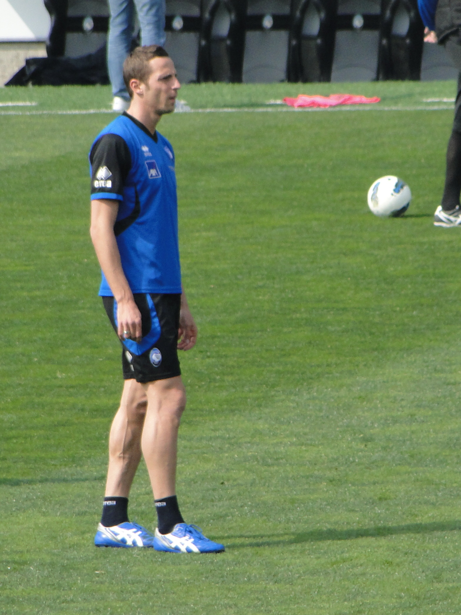 Riccardo Cazzola, italian football player